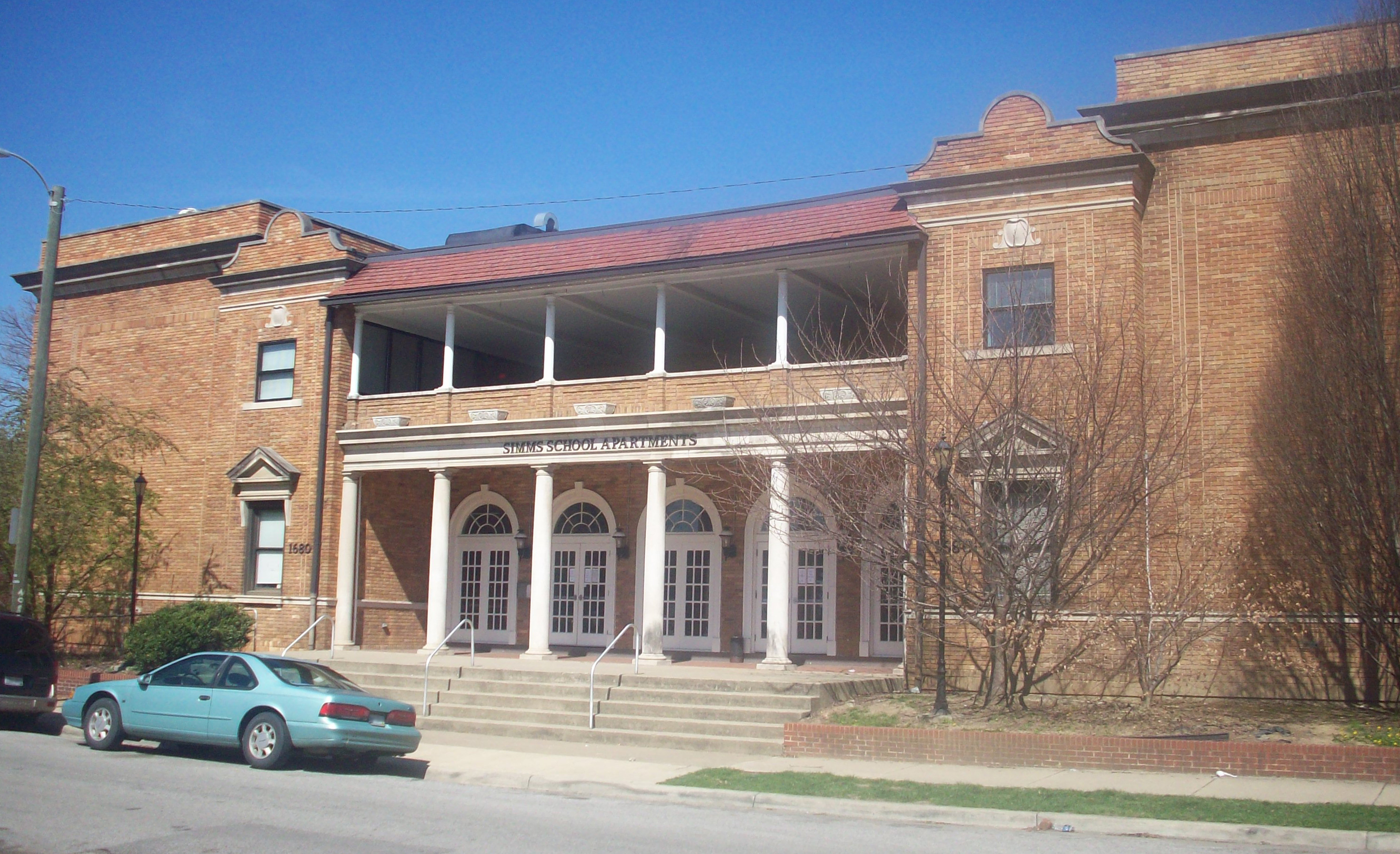 Photo of the Simms School building located in the Fairfield West neighborhood of Huntington, West Virginia. The photo was taken from across 11th Ave.